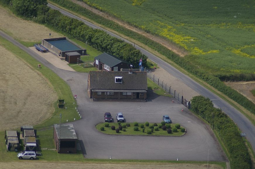 Aeriel View of RAF Holmpton, Holmpton, East Riding of Yorkshire, England.This is an aerial picture taken in 2013 by flying in a light aircraft over the site. This is one of a series of aerial pictures available of our site at RAF Holmpton.